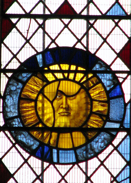 The church of SS Peter and Paul in Clare, Suffolk - stained glass